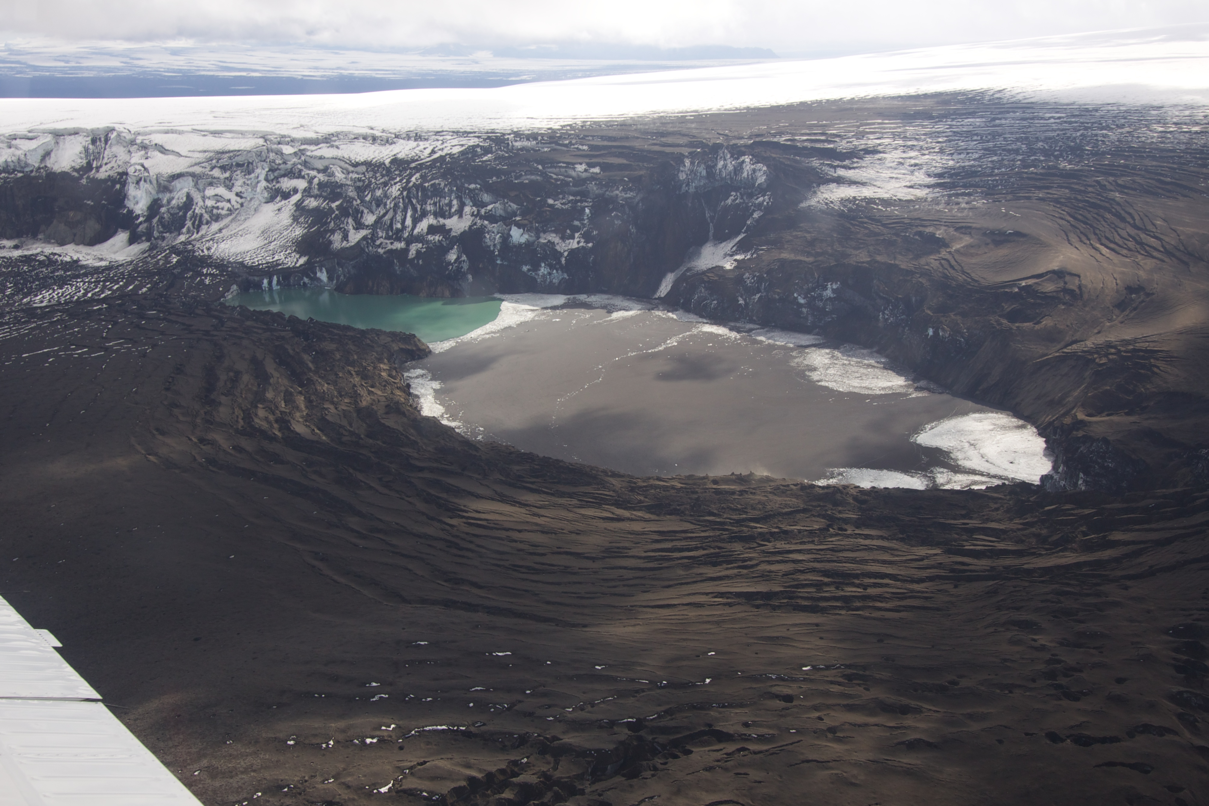 Aerial photo of Grimsvötn, Vatnajökull, Iceland. Photo taken in august 2011, a few months after an eruption.